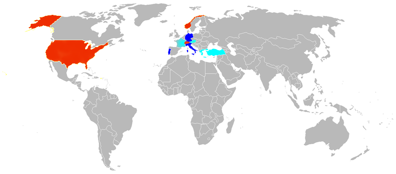 Operators of the Fiat G.91. Dark blue = Operators. Light blue = ordered and cancelled. Red = Evalulated but did not order. Own work, derivative of image:BlankMap-World.png.